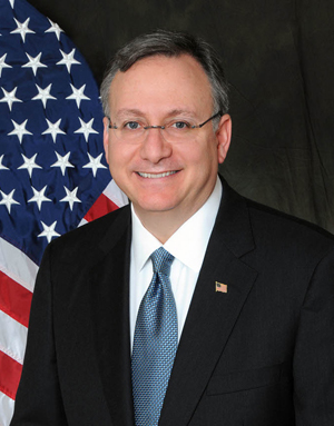 Official photo of U.S. Ambassador to Singapore David Adelman